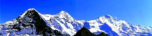 Jungfrau